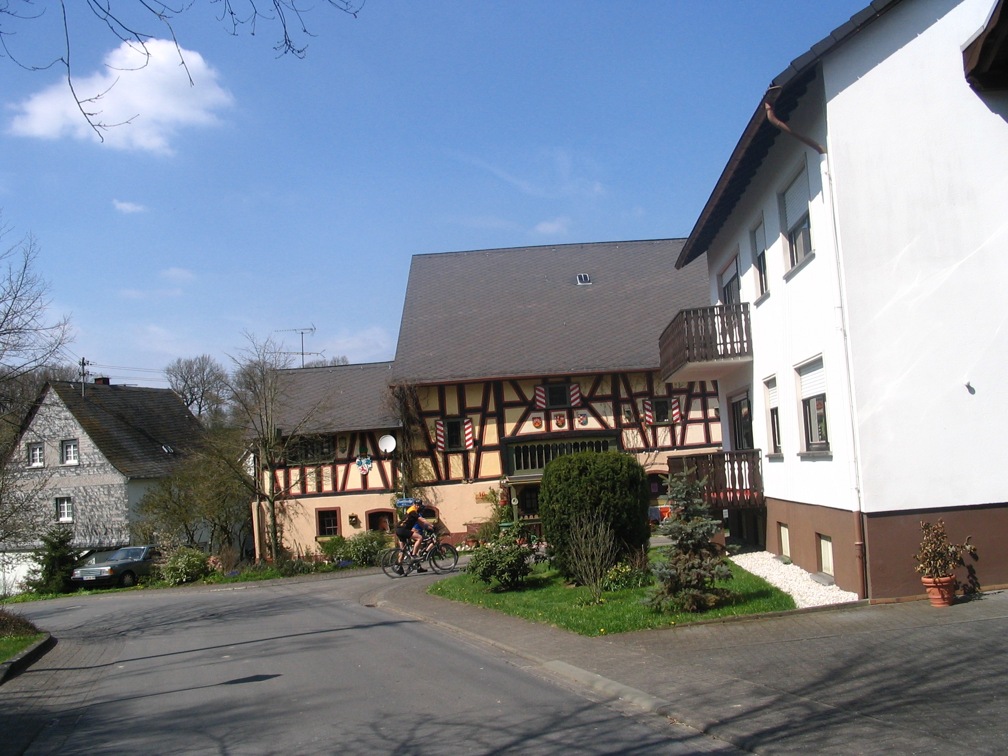 Village Dill in the Hunsrück landscape, Germany